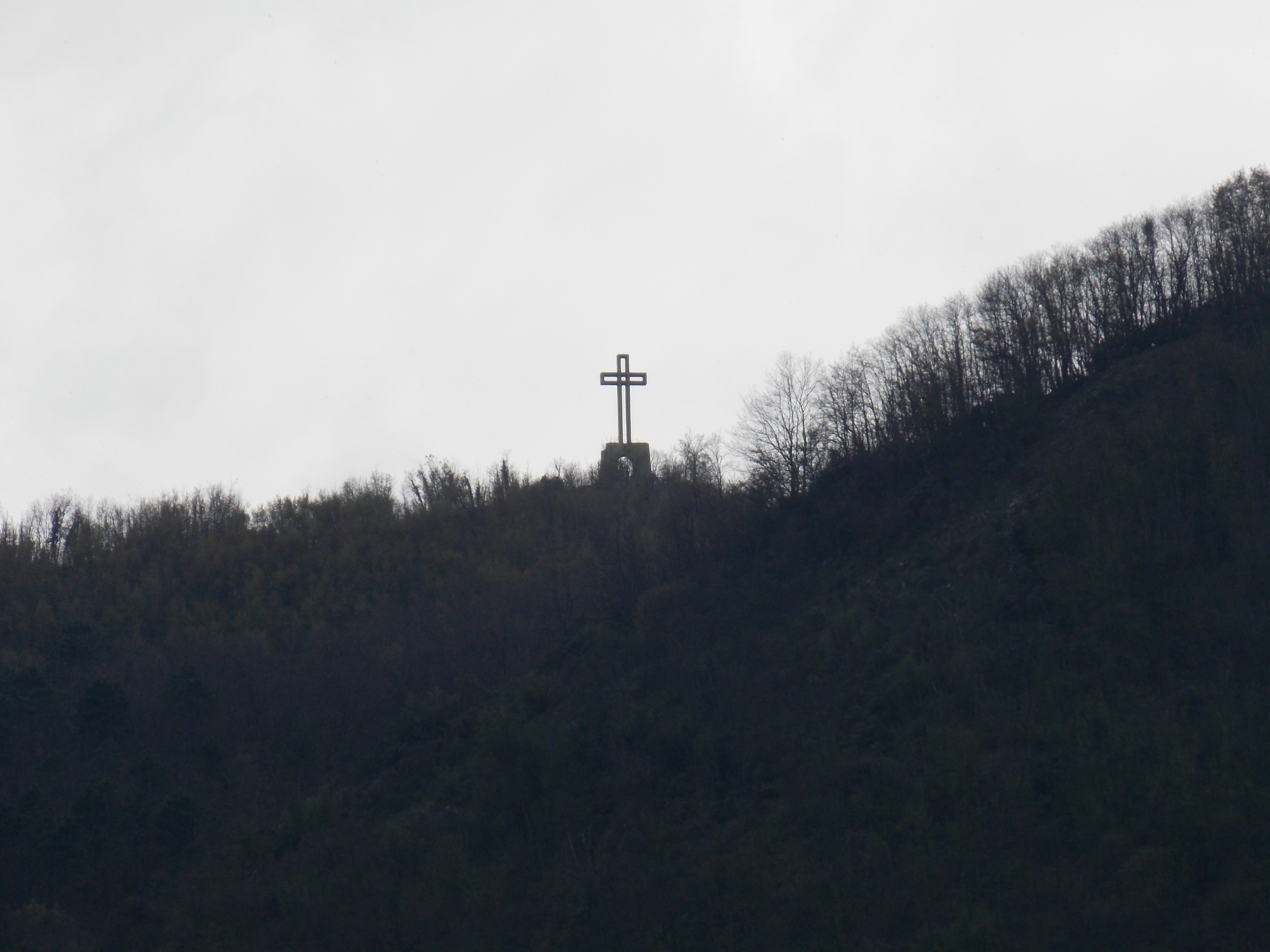 Croce di Brancoli